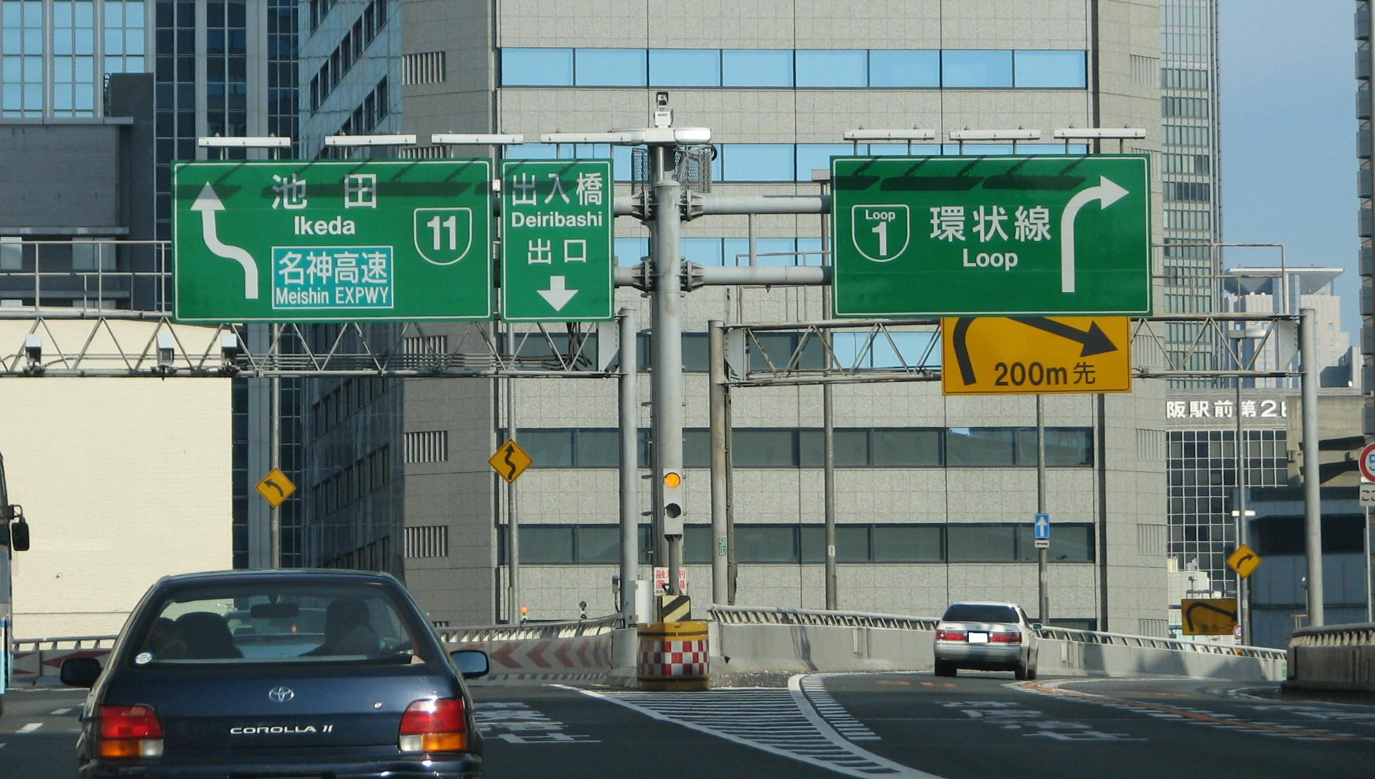 Hanshin Expressway Nakanoshima JCT